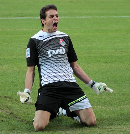 Guilherme Marinato playing for FC Lokomotiv Moscow in 2012.